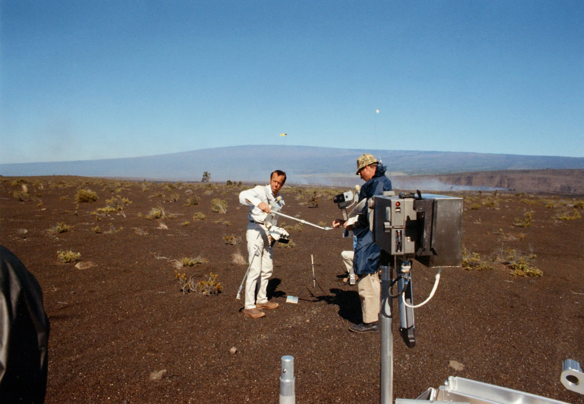 Al Shepard (left) holds the scoop high enough that Ed Mitchell can take the sample without bending, something he would not be able to do easily in the pressure suit on the Moon. Note that Al is wearing a stereocamera that was under development but was never flown. Journal Contributor Markus Mehring tells us that the red dot at the top left on the back of the 16-mm camera in the right foreground is "the end of film warning light, which lights up when there are less than 6 feet of film left in the magazine." The 16-mm camera was manufactured by Mauer and their label is at the bottom left on the back of the camera. A bettery pack (DAC Power Pack) is attached to the righthand side of the camera. Mehring notes, "The white cable below is the connector cable providing the DAC with power from the batteries. The DAC didn't have internal batteries, it always drew its power via a cable from the spacecraft circuits. And during mobile EVA usage, they of course didn't have that available, so they came up with this battery solution."